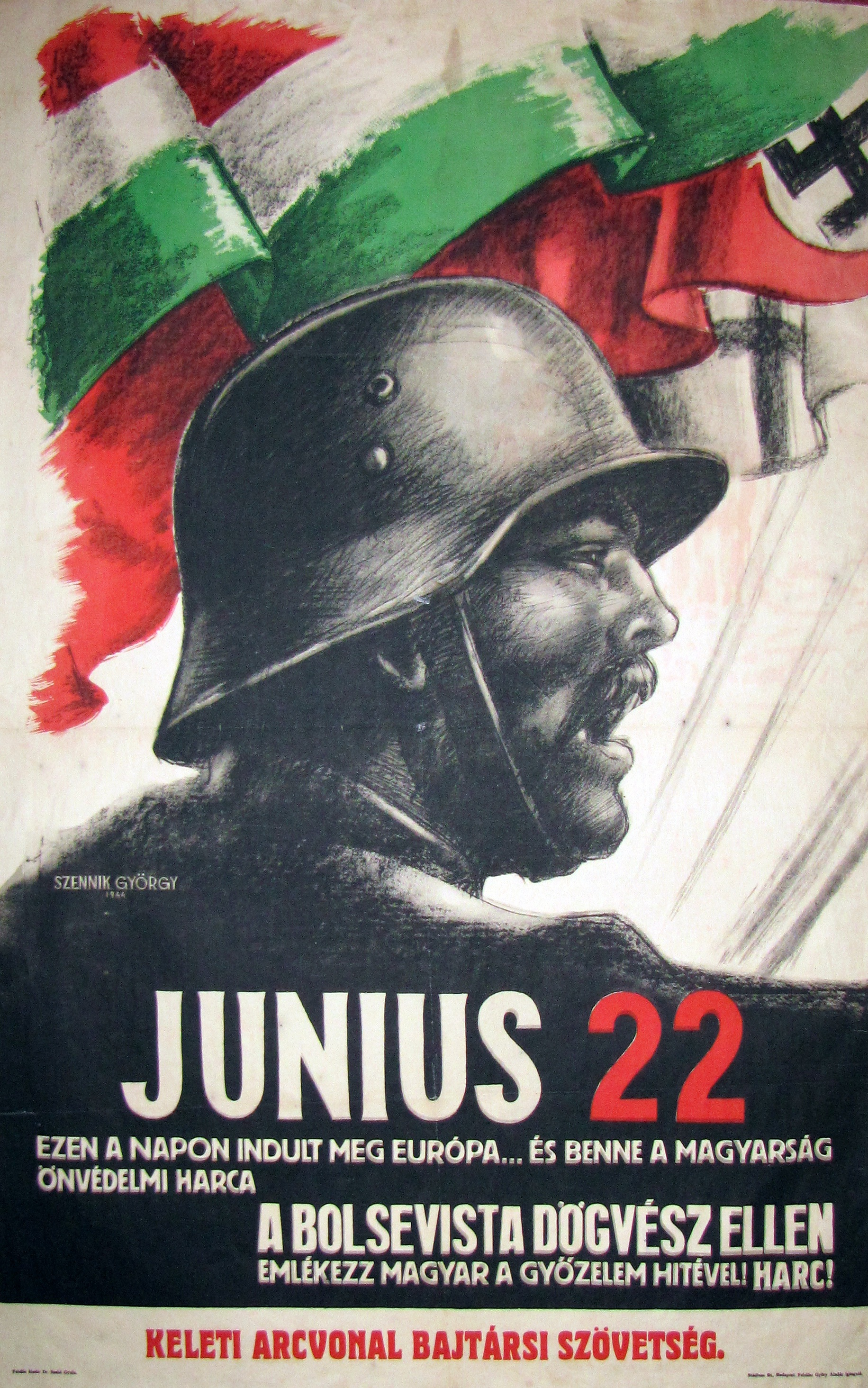 Hungarian army propaganda poster from World War II